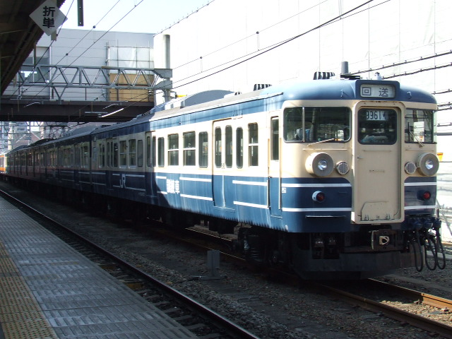 Training Car of Model 115,East Japan Railway,Japan